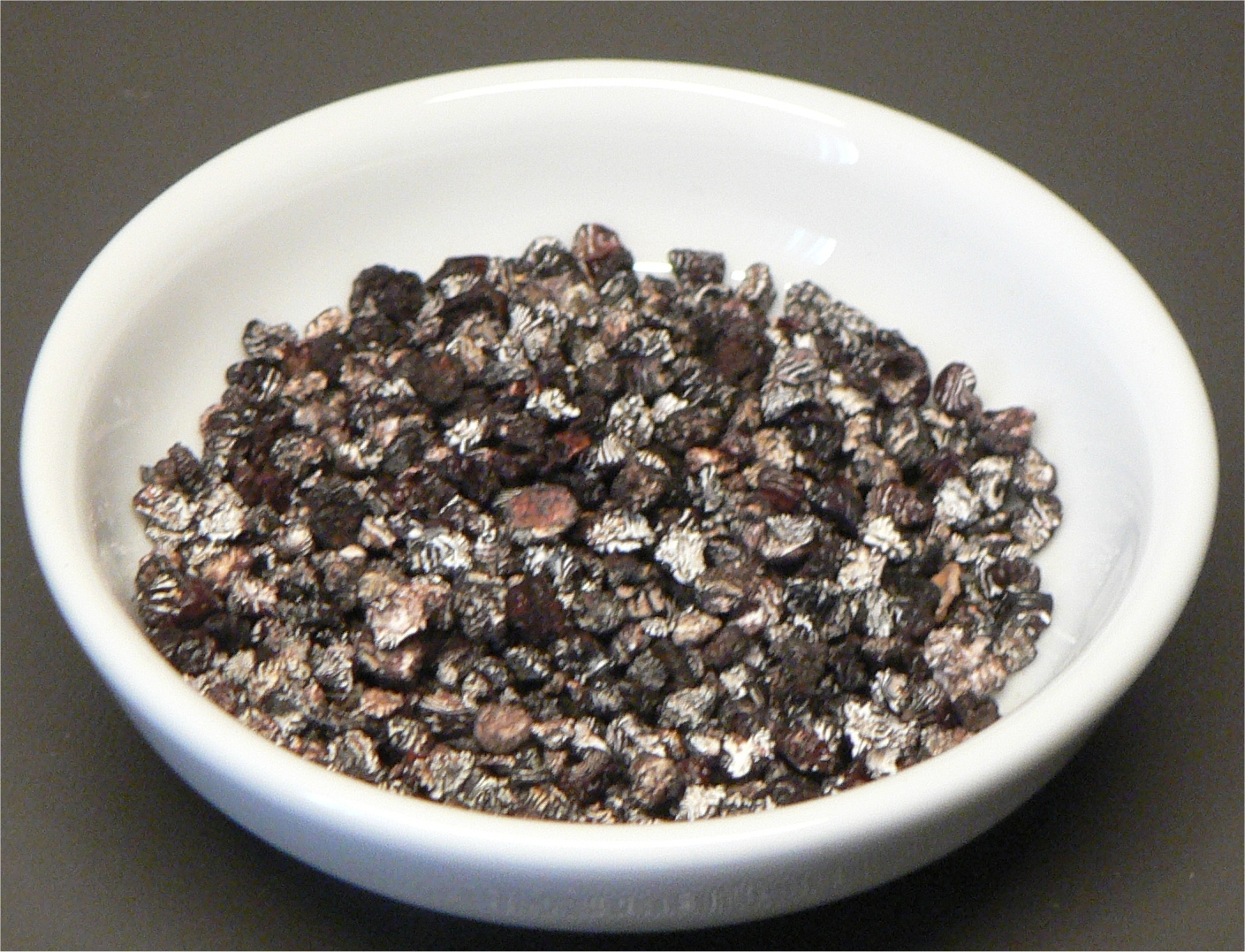 dried female cochineal insects (Dactylopius coccus)